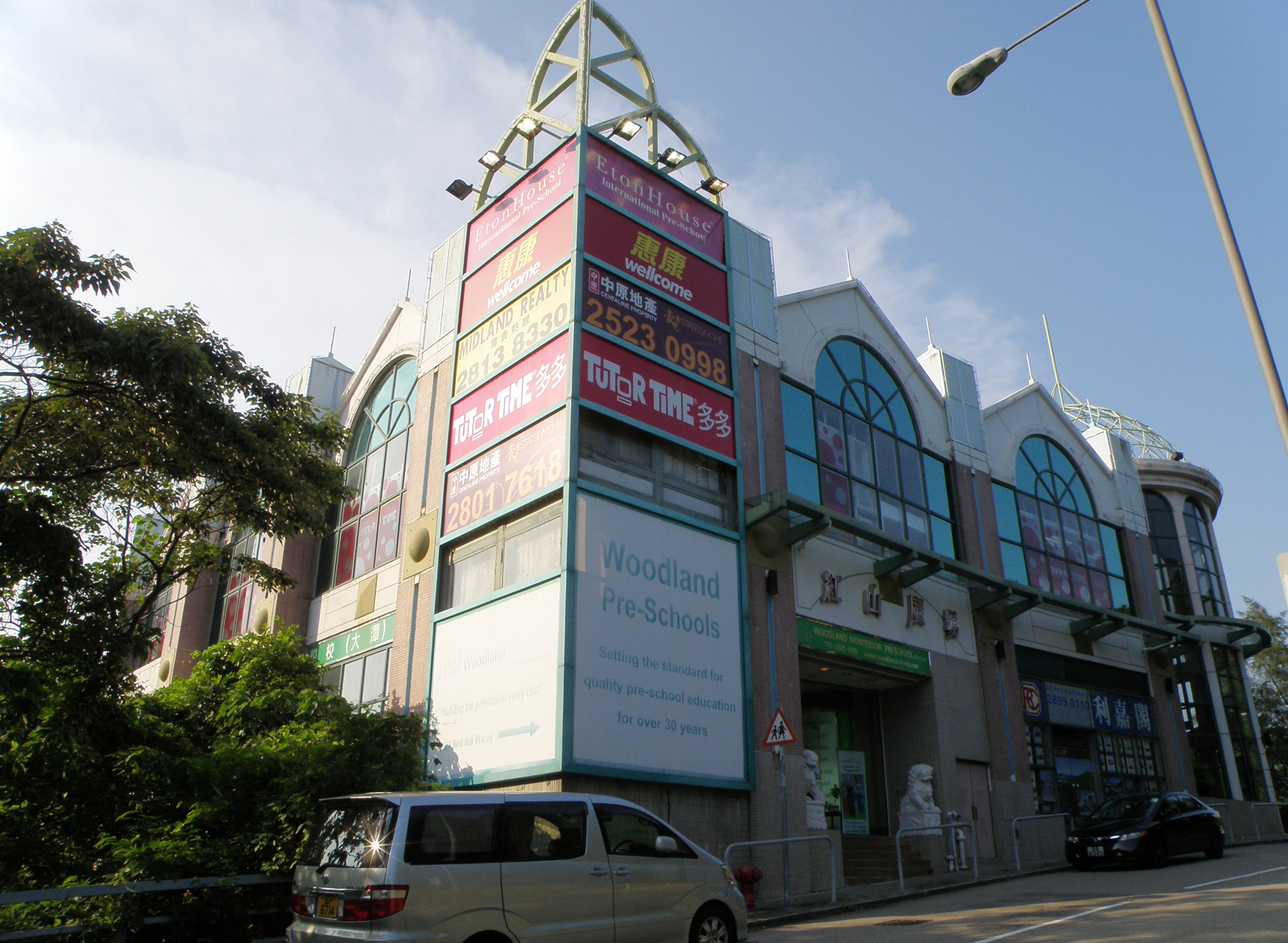 Redhill Plaza in Tai Tam, Hong Kong.